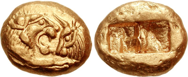 KINGS of LYDIA. Time of Cyrus to Darios I. Circa 545-520 BC